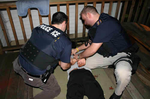 Arrest of a suspect made on the floor by United States Immigration and Customs Enforcement officers/agents — original caption: "ICE adds seven new Fugitive Operations teams to its nationwide arsenal"